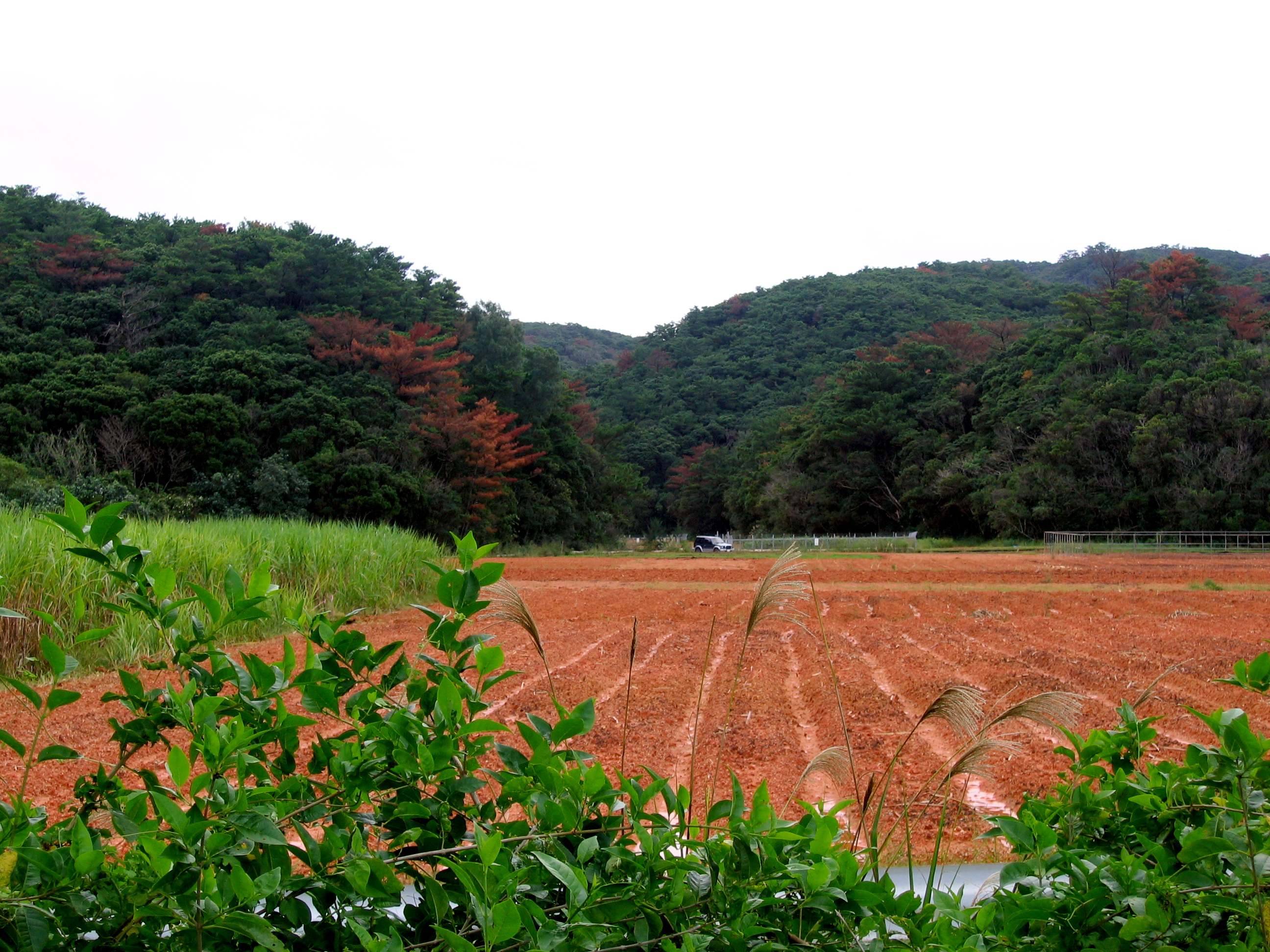 Onna, Okinawa, Japan.